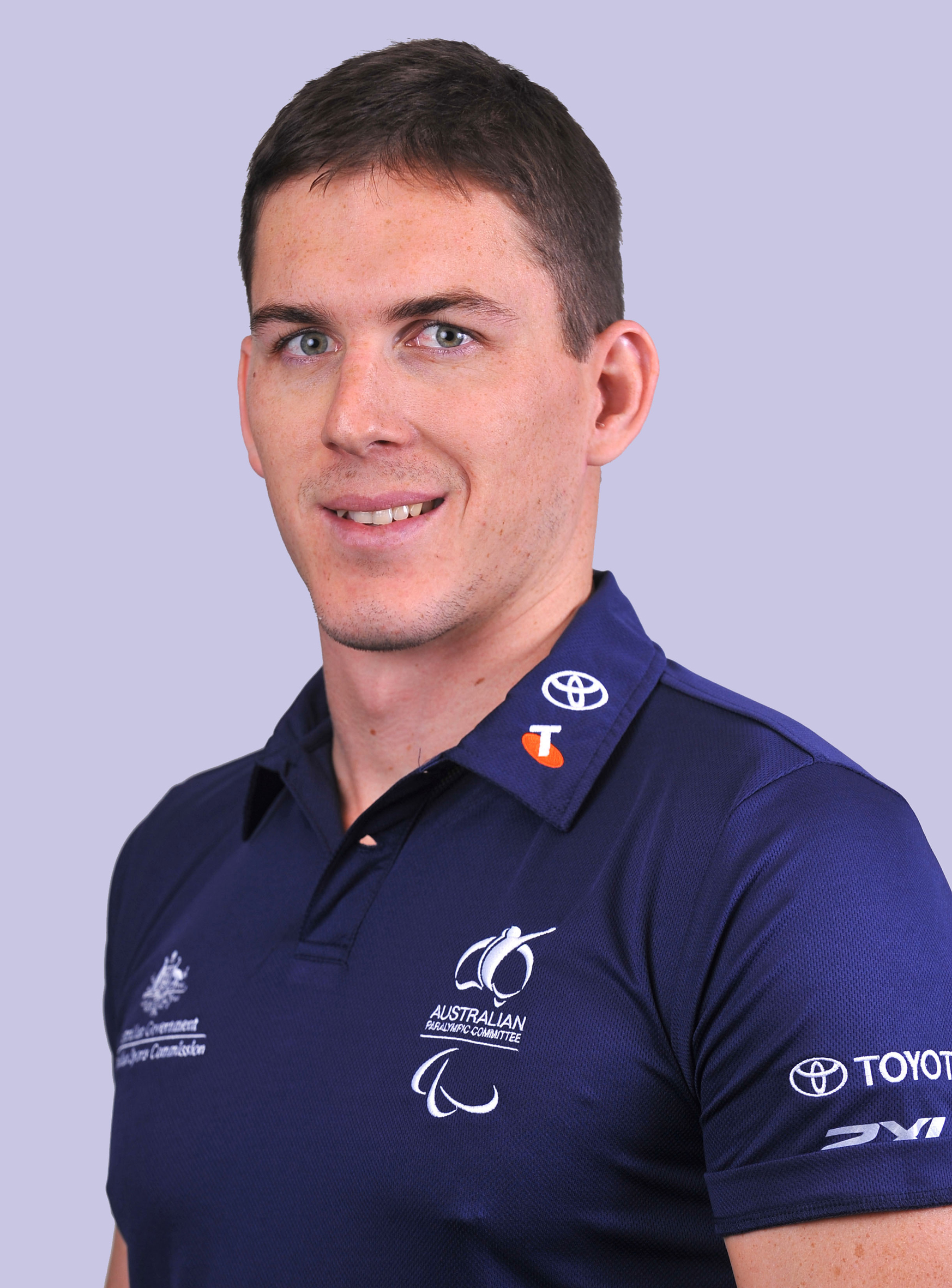 Portrait of Australian swimmer Michael Anderson, 2012 Australian Paralympic (shadow) Team athlete